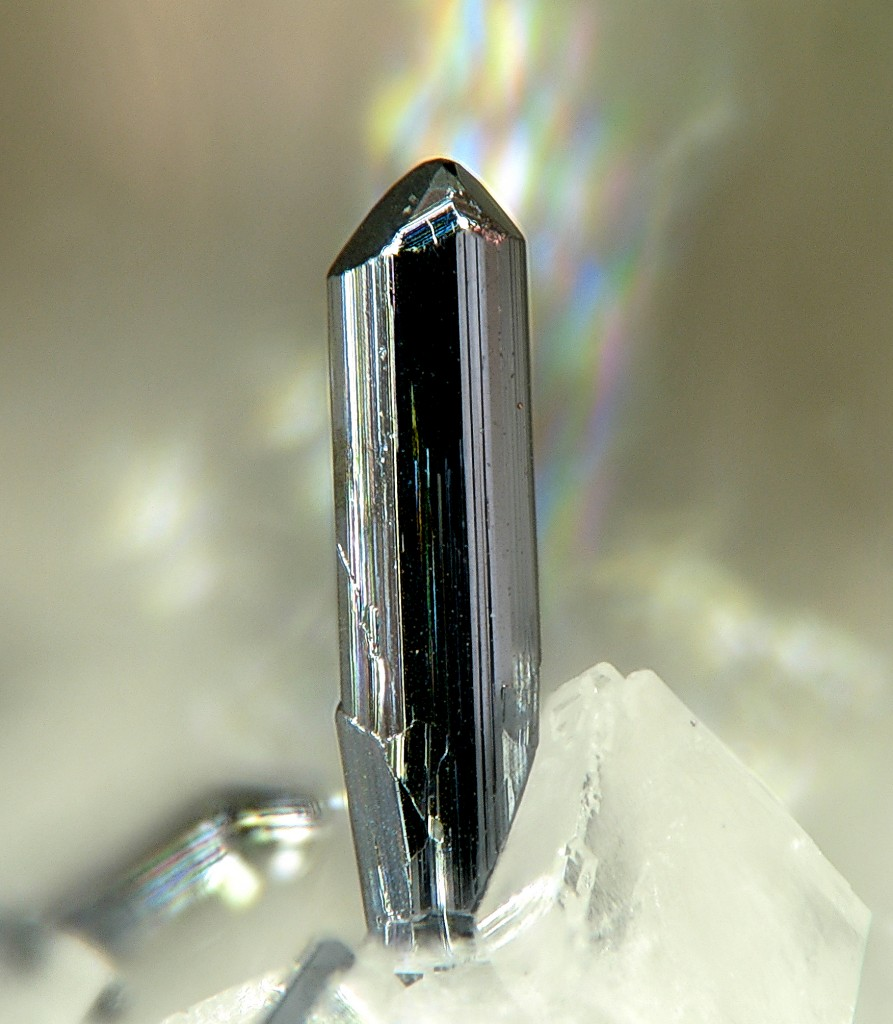 Imiterite Locality: Imiter Mine, Boumalne-Dadès, Ouarzazate Province, Souss-Massa-Draâ Region, Morocco (Locality at ) Picture width 0.6 mm. Collection and photograph Christian Rewitzer